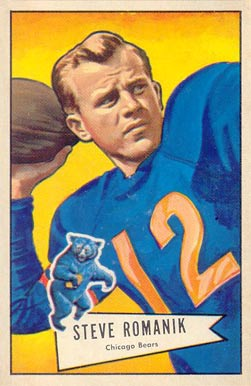 American football player Steve Romanik on a 1952 Bowman Large card.